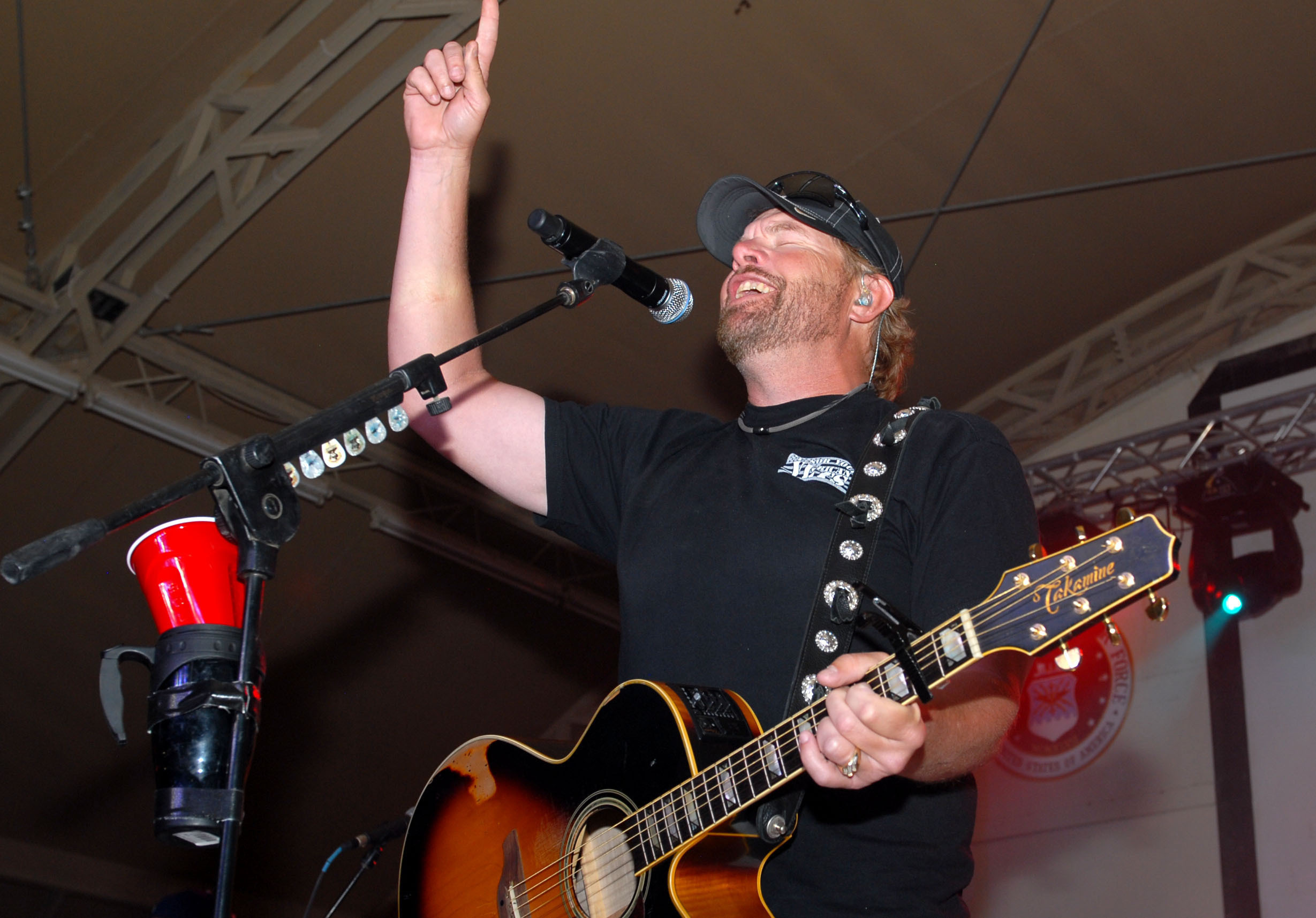 Country music superstar and USO veteran Toby Keith hits a high note while singing "American Ride" to a crowd of service members and others at Camp Buehring, Kuwait, April 26.